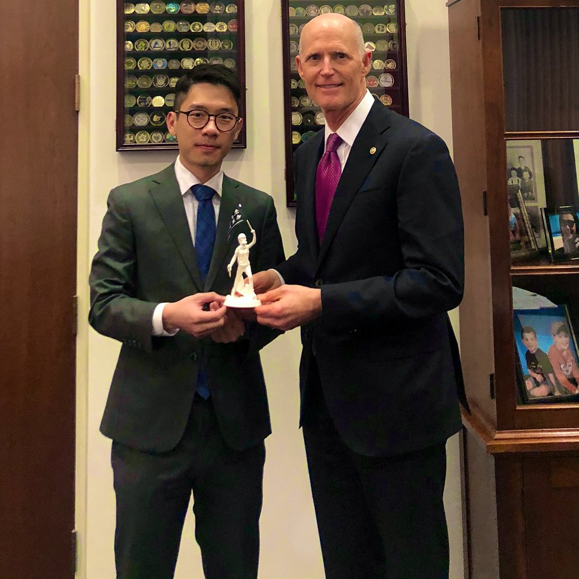 Honored to have @nathanlawkc join me tonight at the #SOTU! Nathan is a remarkable young man who is speaking out against the human rights abuses and oppression by Communist China in #HongKong. I'm proud to stand with the people in their fight for freedom and democracy!